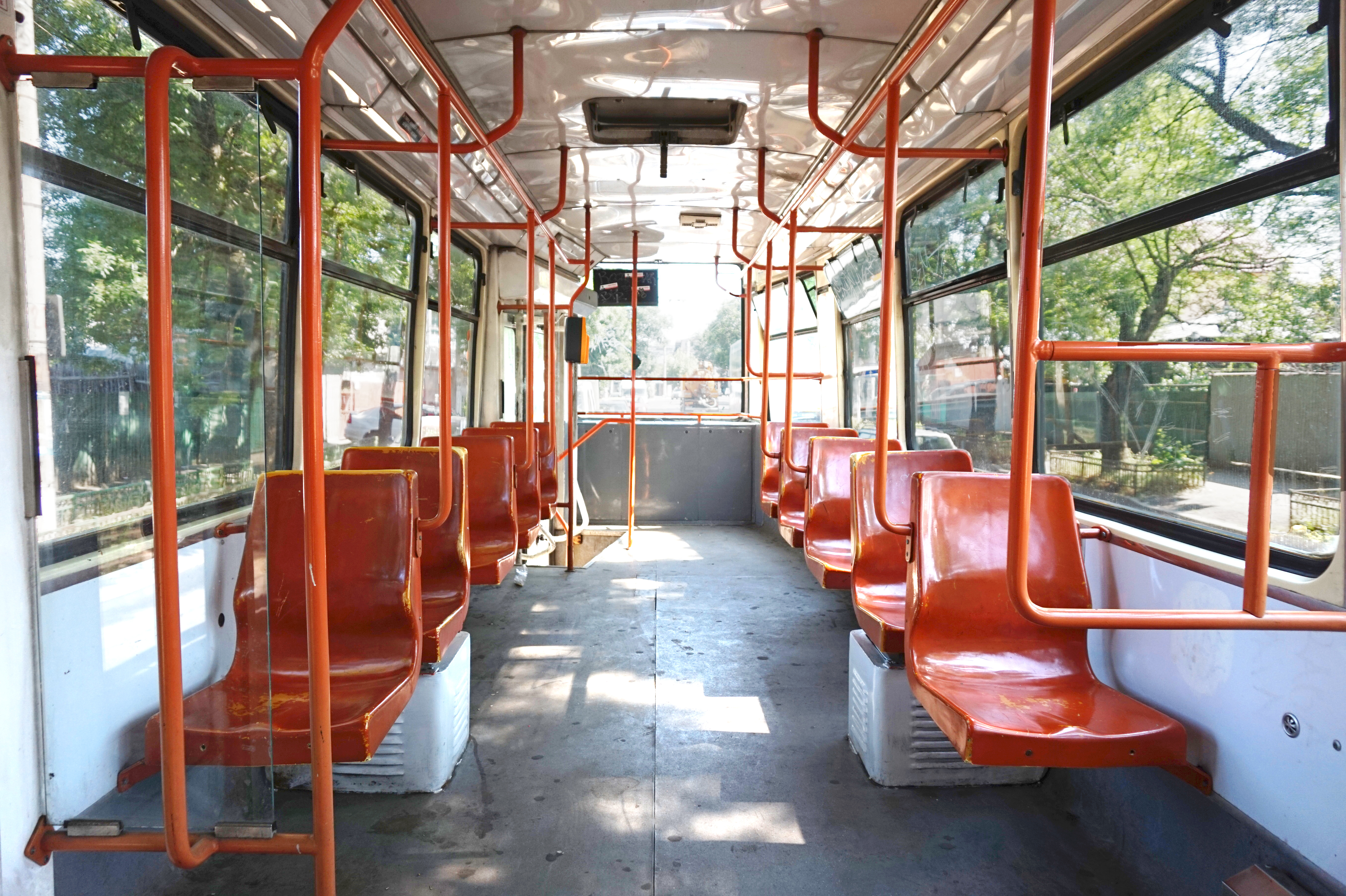 Tram interior in Bucharest. This photograph was taken with a Sony Alpha a5000.